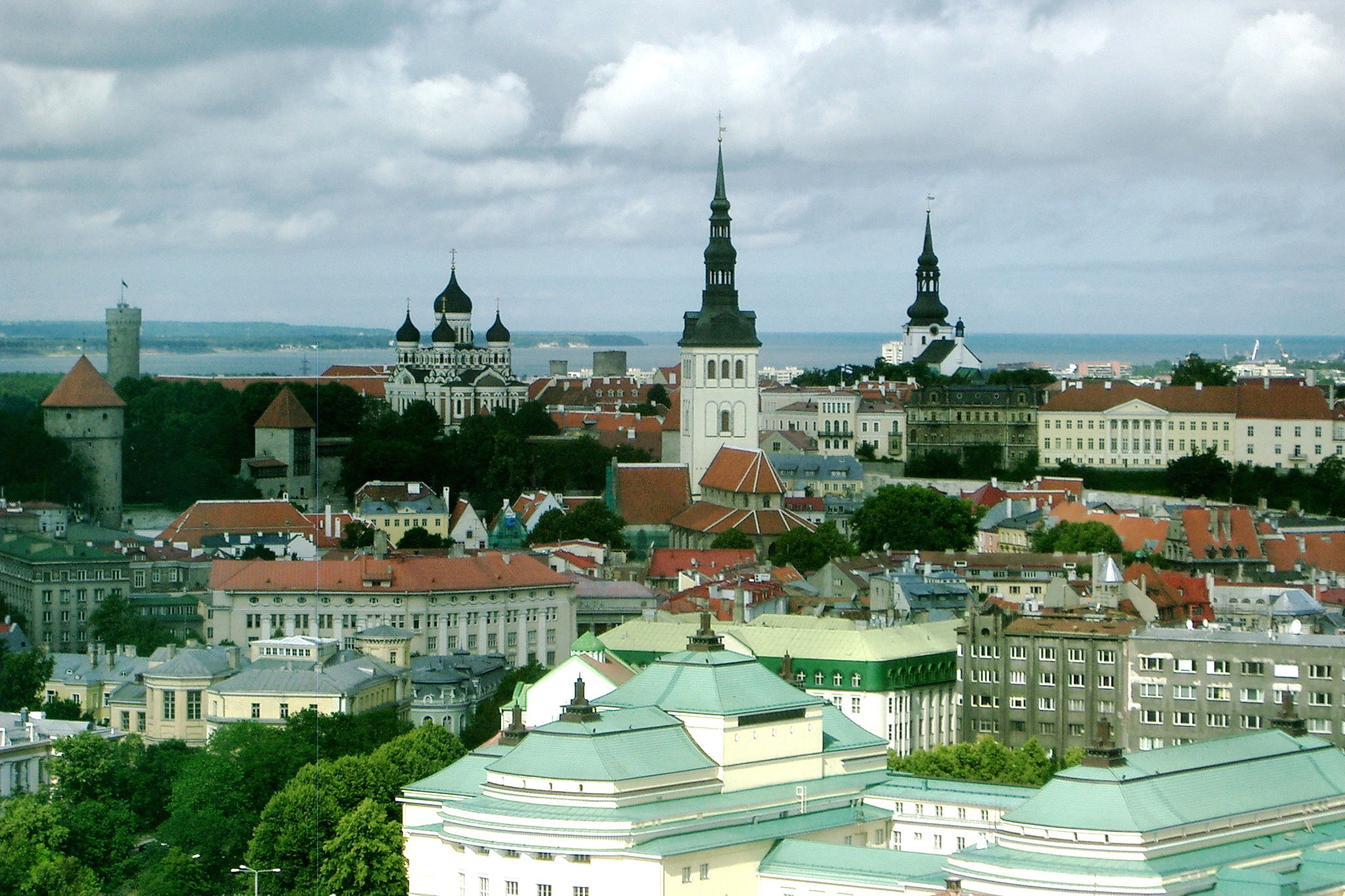 Tallinn, view out the window at the Skype Board meeting.